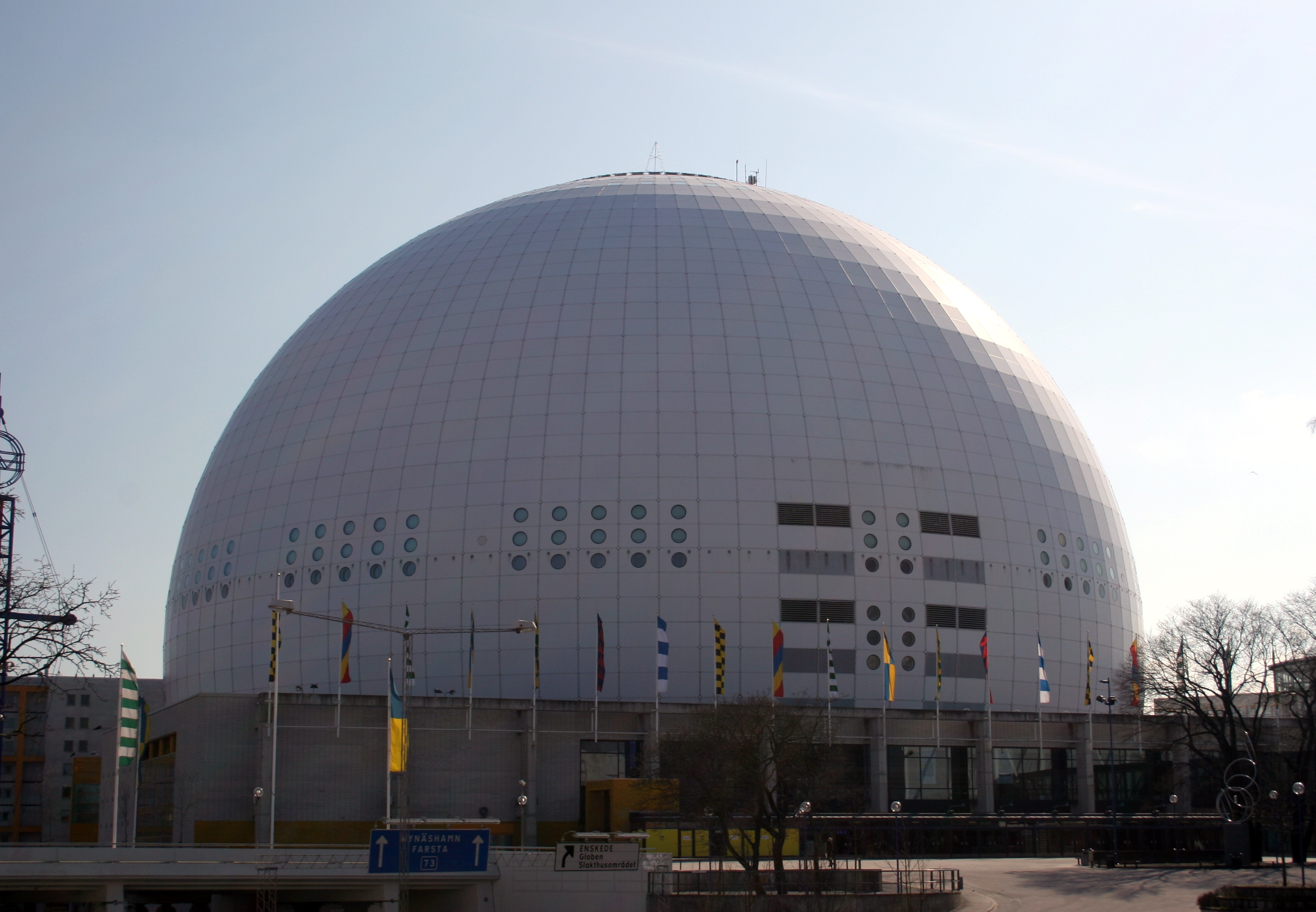 Ericsson Globe Arena in Johanneshov, Stockholm, Sweden. Picture taken from northeast. Riksväg 73 in front of the arena.